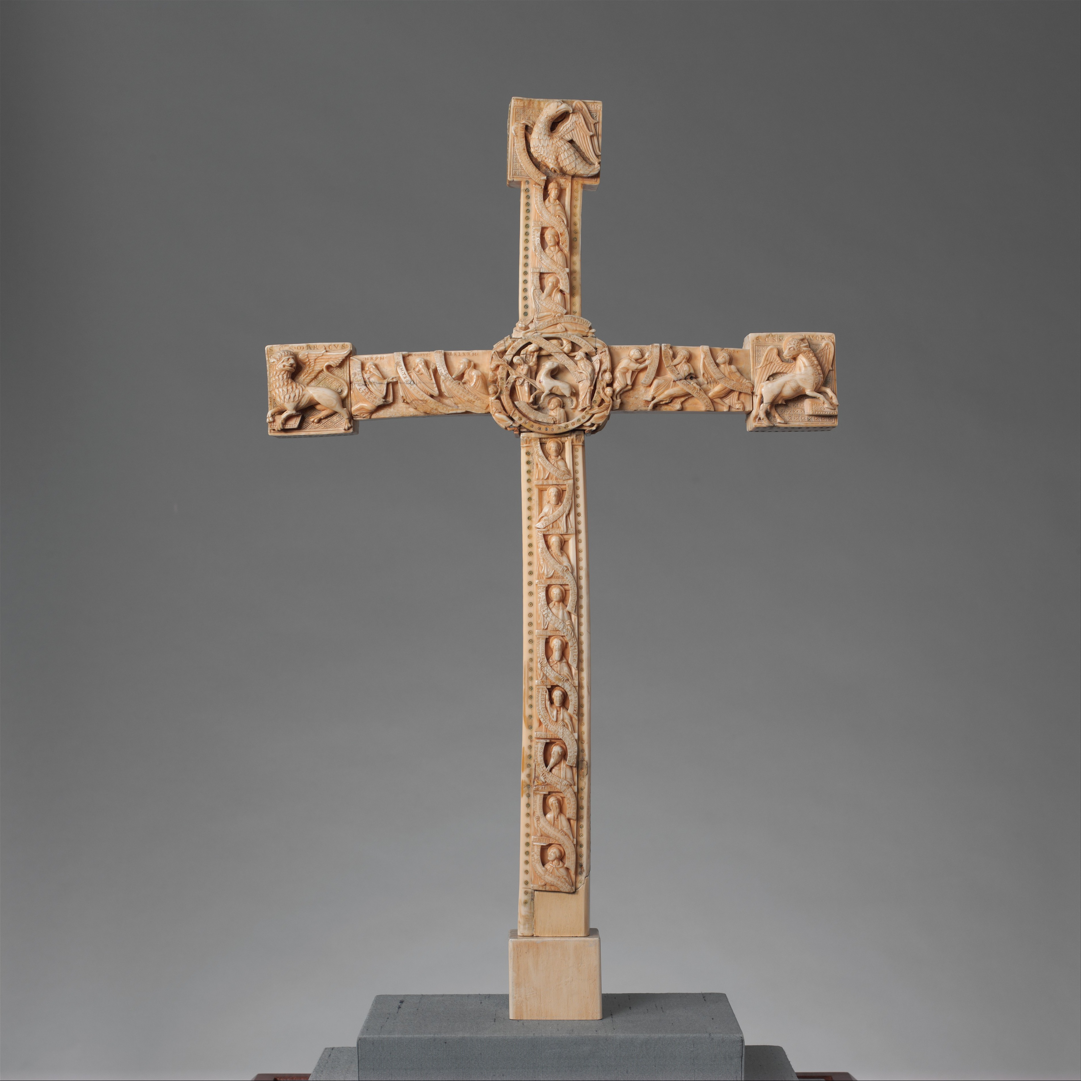 British; Cross; Ivories